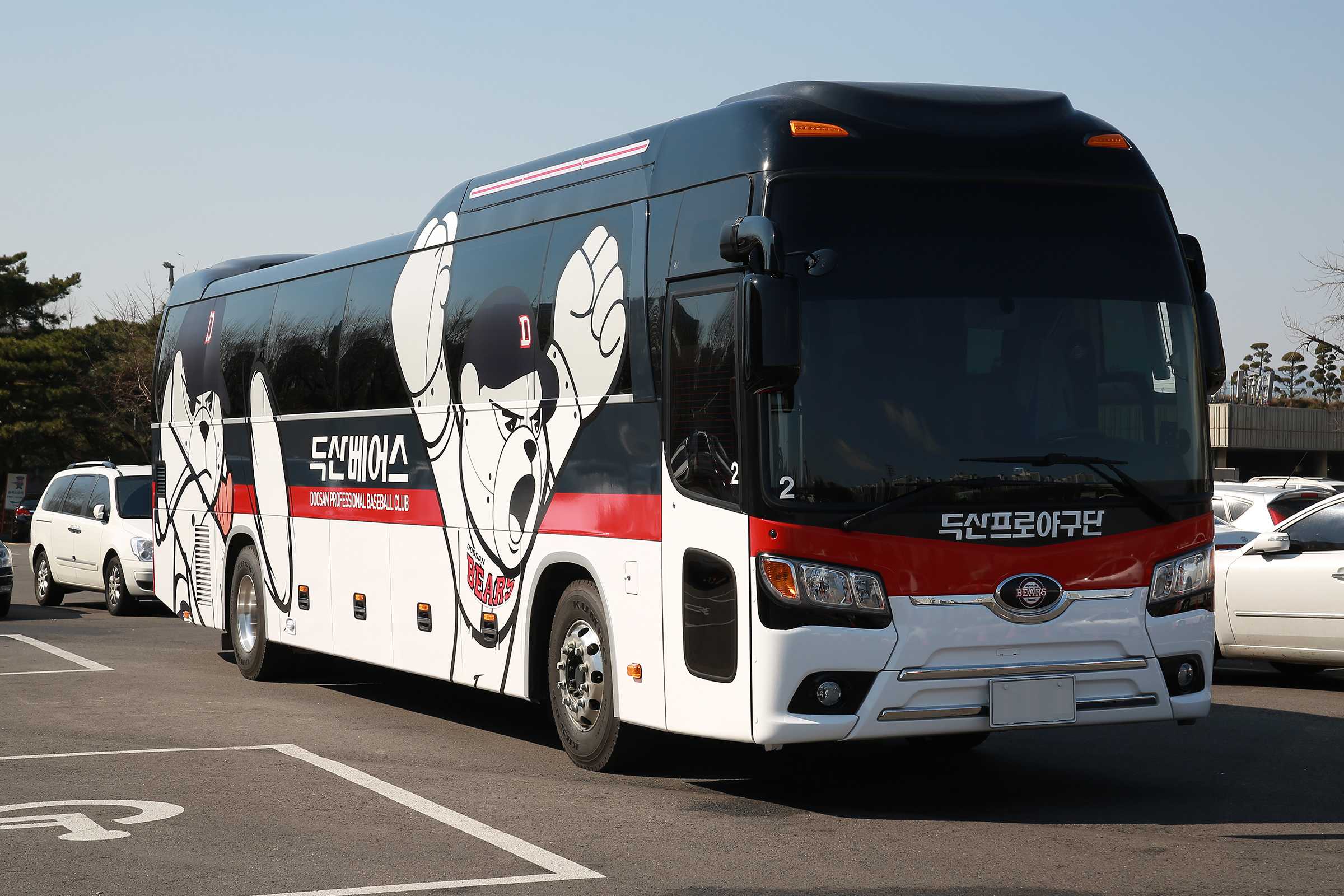 Granbird of Doosan Bears at Jamsil Ballpark